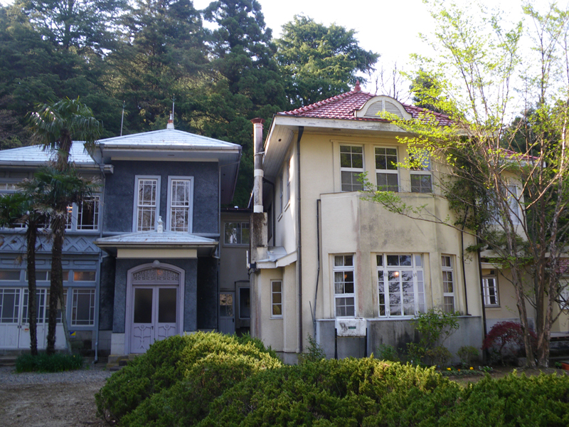 Yamagata Aritomo memorial house in Yaita, Tochigi. Architect by Chuta Ito.